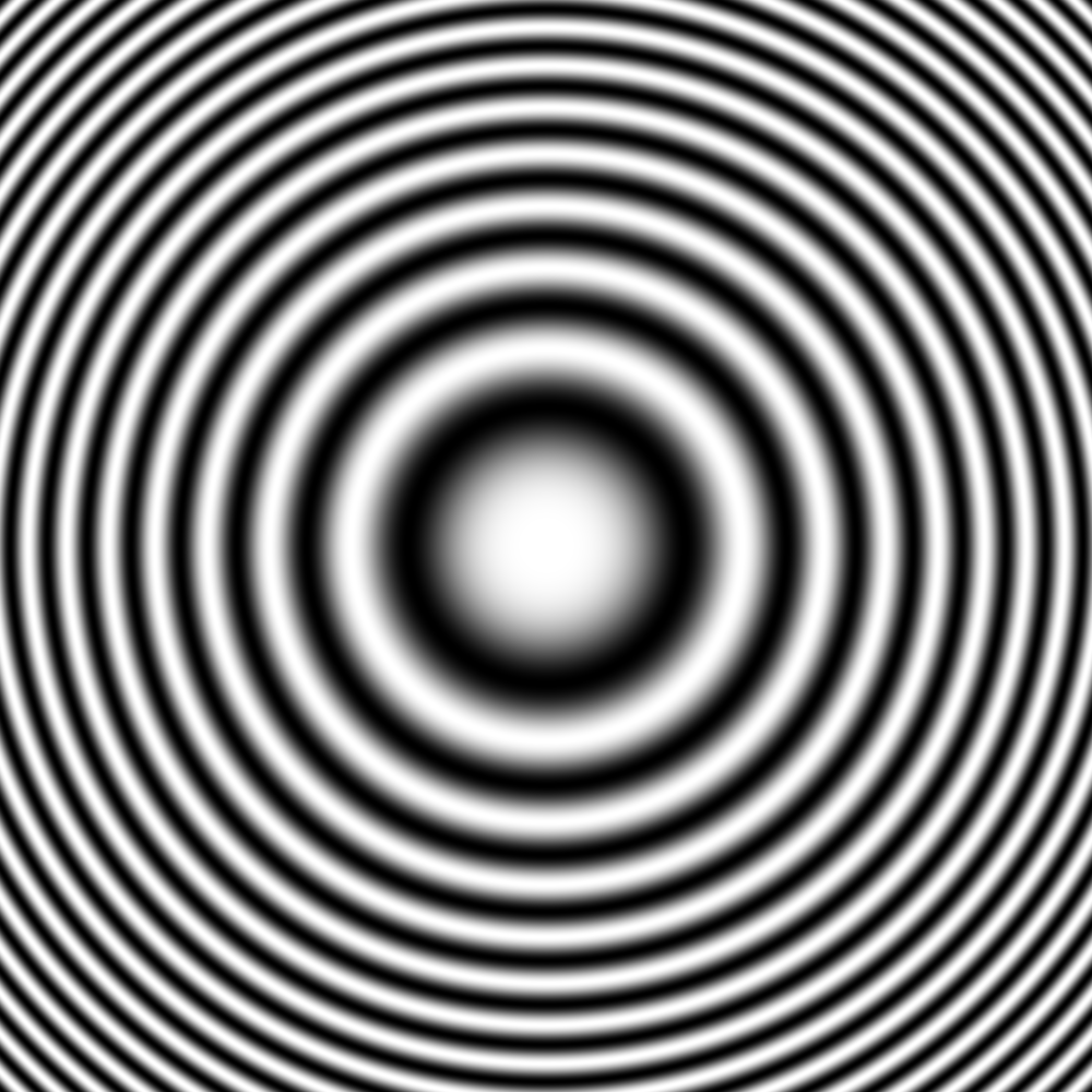 Frenel's zone plate with sinusoidal transparency. For calculation code see below.